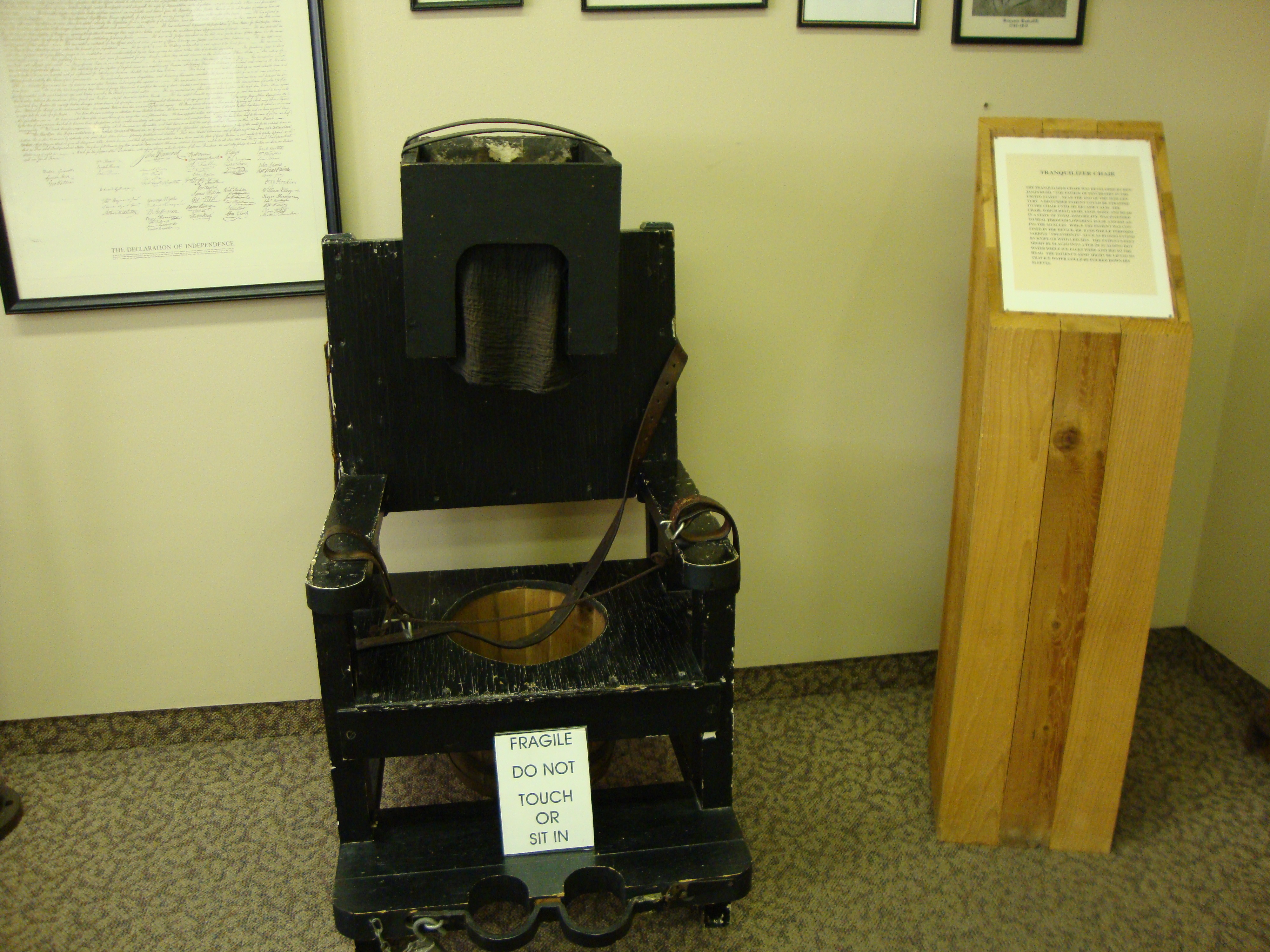 Glore Psychiatric Museum Tranquility Chair